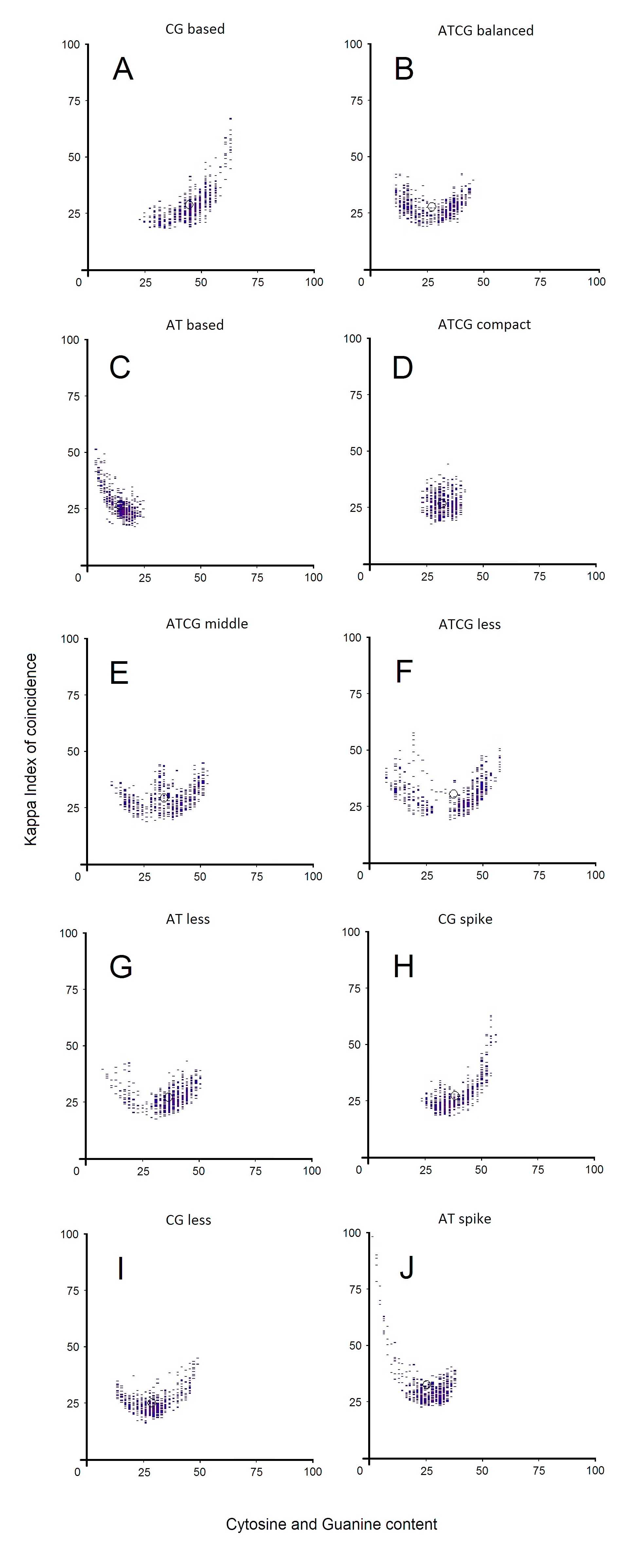 The representative eukaryotic classes of gene promoters are shown in the following sections: (A) AT-based class, (B) CG-based class, (C) ATCG-compact class, (D) ATCG-balanced class, (E) ATCG-middle class, (F) ATCG-less class, (G) AT-less class, (H) CG-spike class, (I) CG-less class and (J) ATspike class.